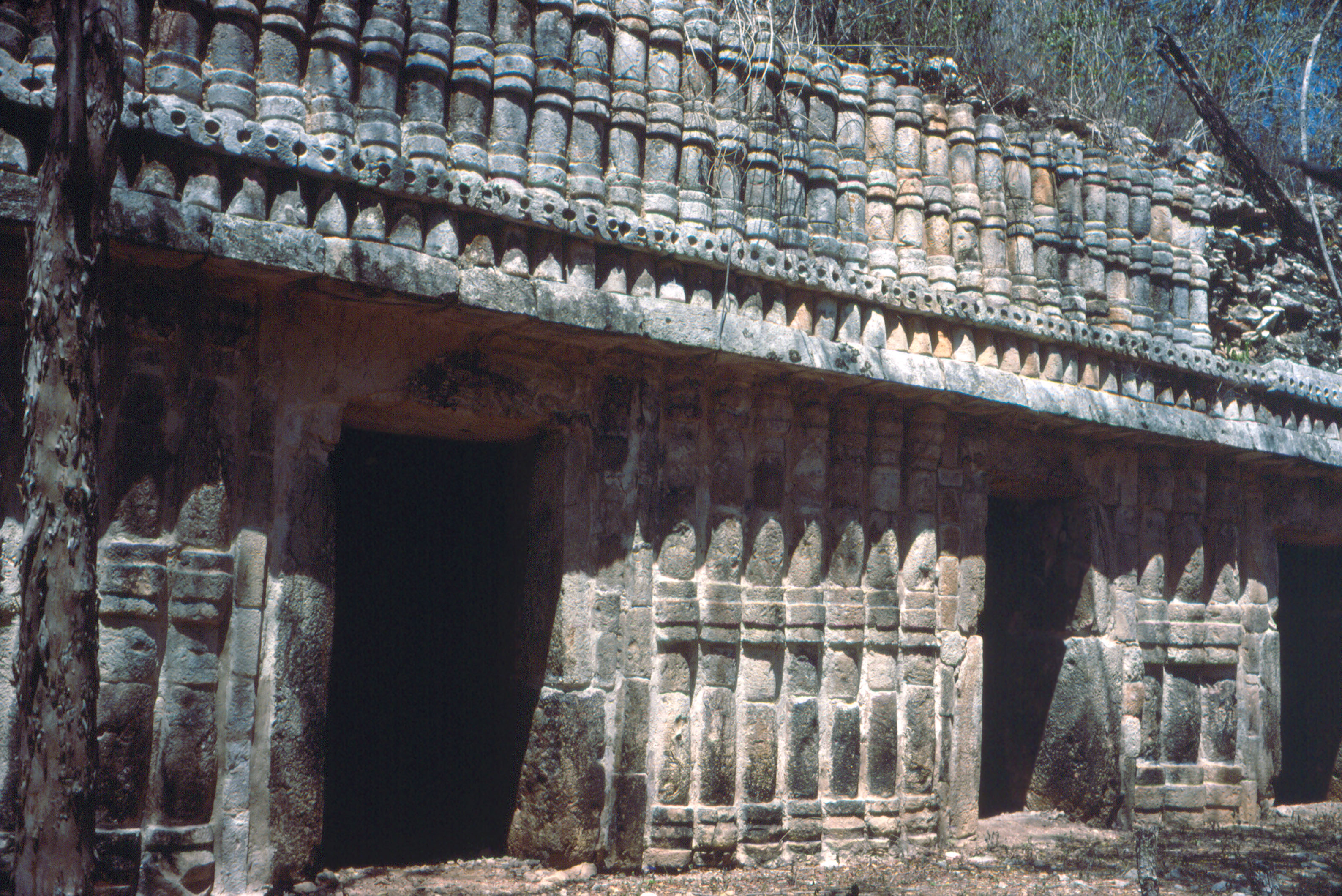 Sayil, Yucatán, Mexico: South Palace, plan.